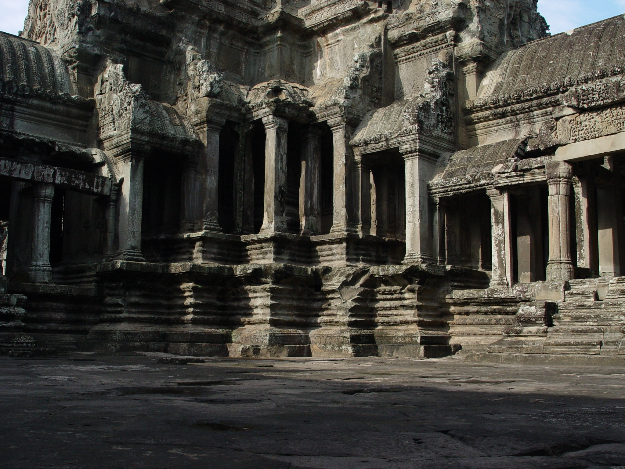 2nd Level of the temple proper at Angkor Wat from bottom of South West pool with steps to the colonnaded corridor at the right and the base of the central spire in centre of the Temple complex in centre of picture.